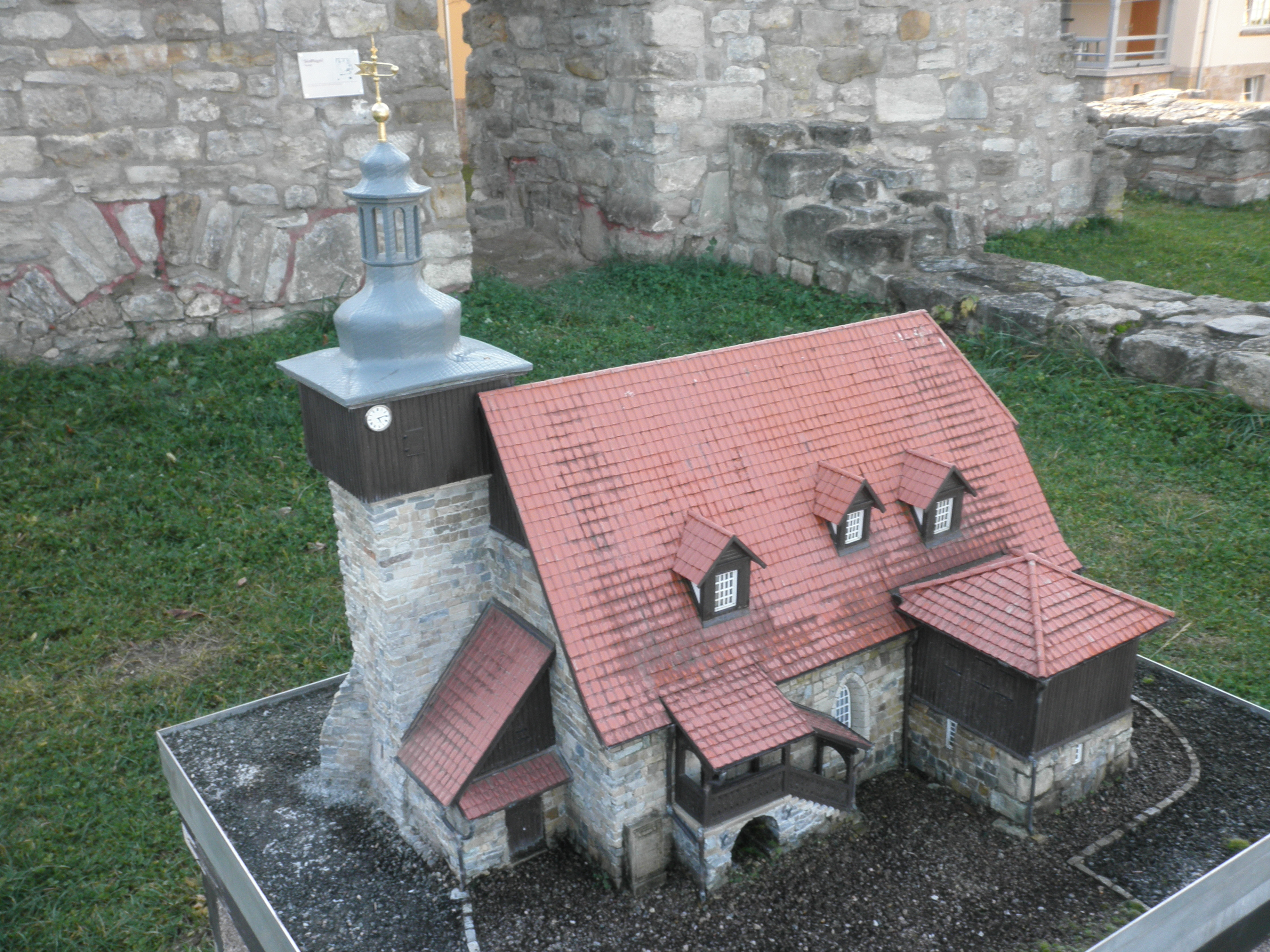 Church in Dornheim (Thüringen) in Thuringia